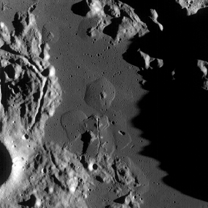 Group of shield volcanoes in Lacus Veris on the Moon. Shadow from outer range of Montes Rook is seen on the right. Photo by Lunar Reconnaissance Orbiter, made with Wide Angle Camera on 21 December 2010 from altitude 49 km. Sun elevation is 7.2°. Size of the photo is 50×50 km, north is approximately up. Look also an article on .